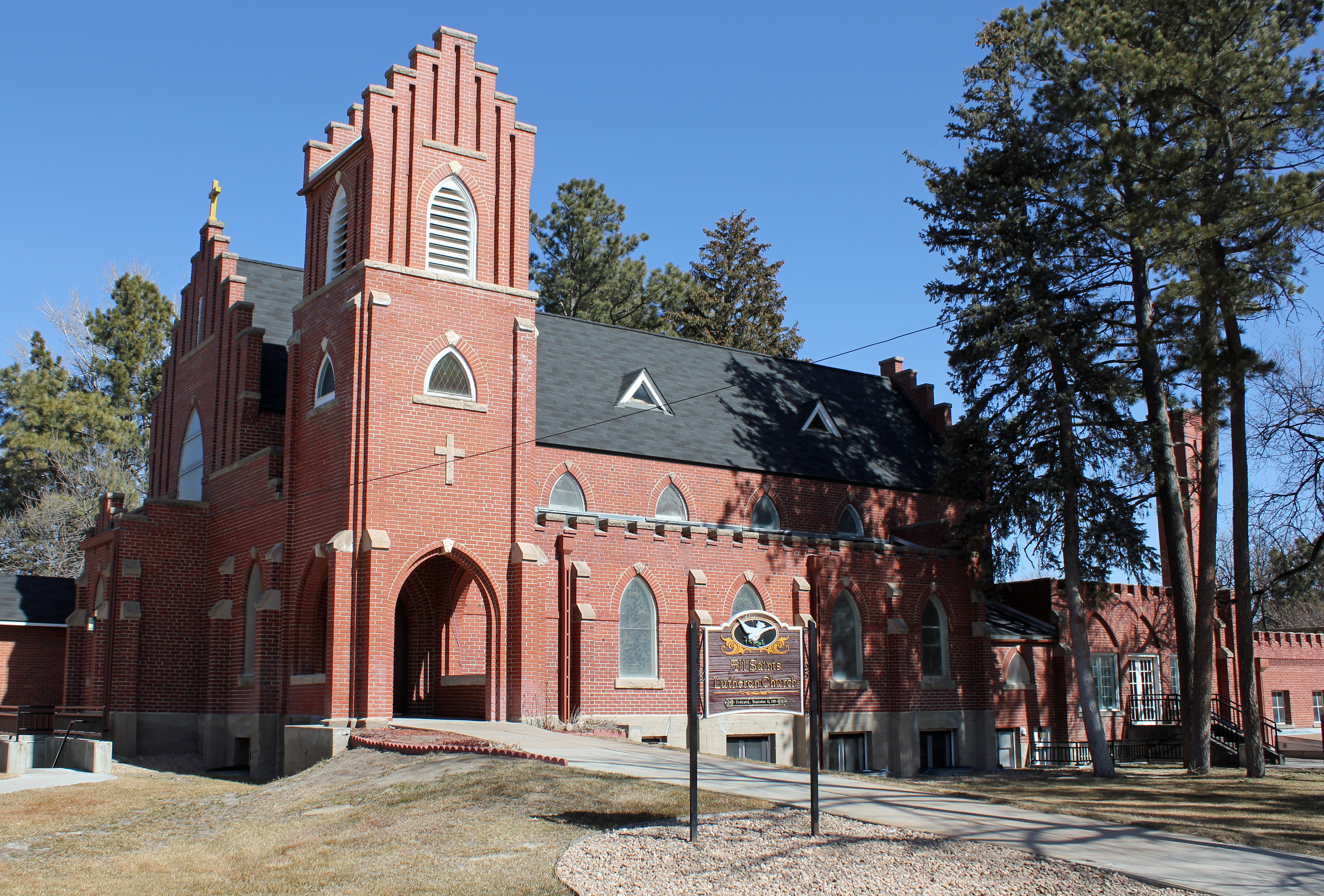 The All Saints Church of Eben Ezer, located at 120 Hospital Road in Brush, Colorado. The property is listed on the National Register of Historic Places.